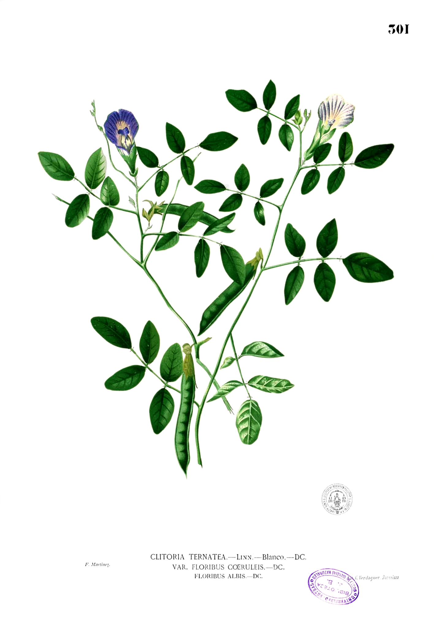 Name Clitoria ternatea Plate from book